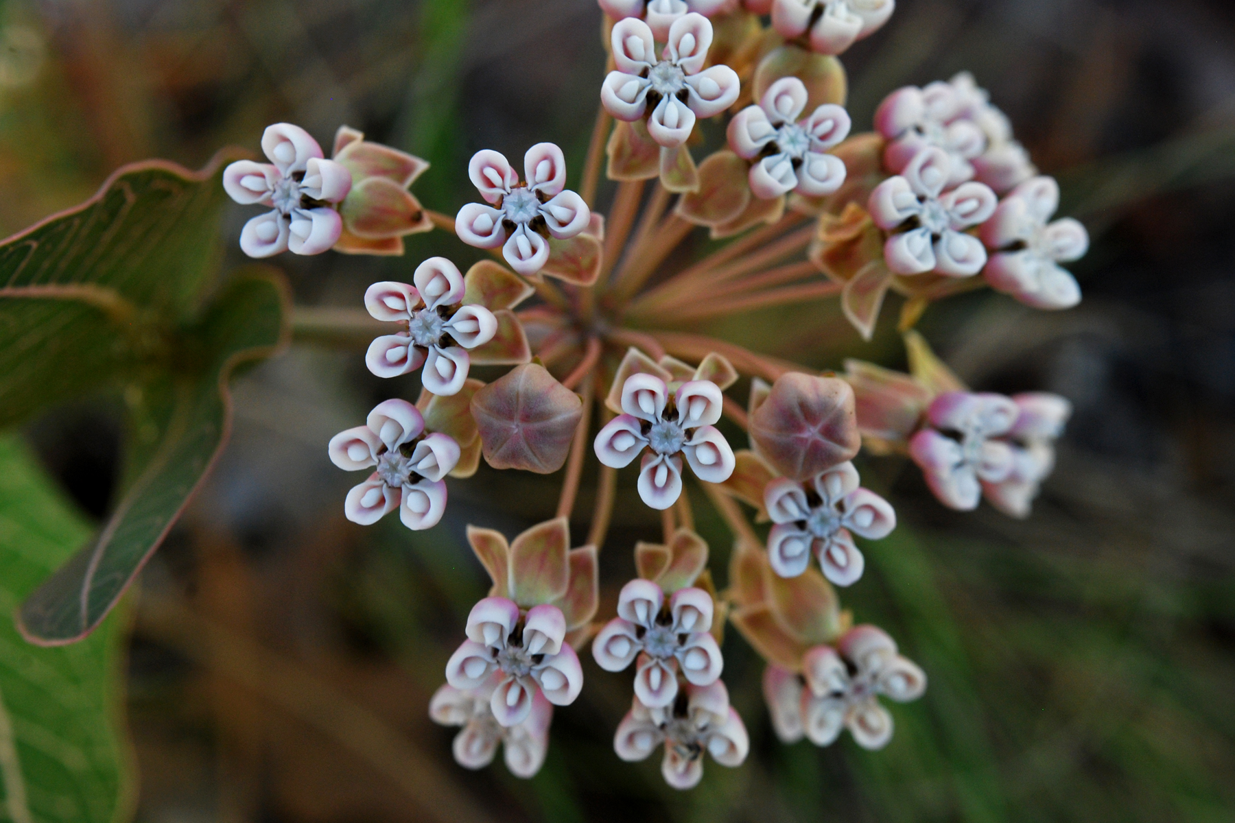 Asclepias humistrata in Florida: Nassau County, Simmons State Forest USA